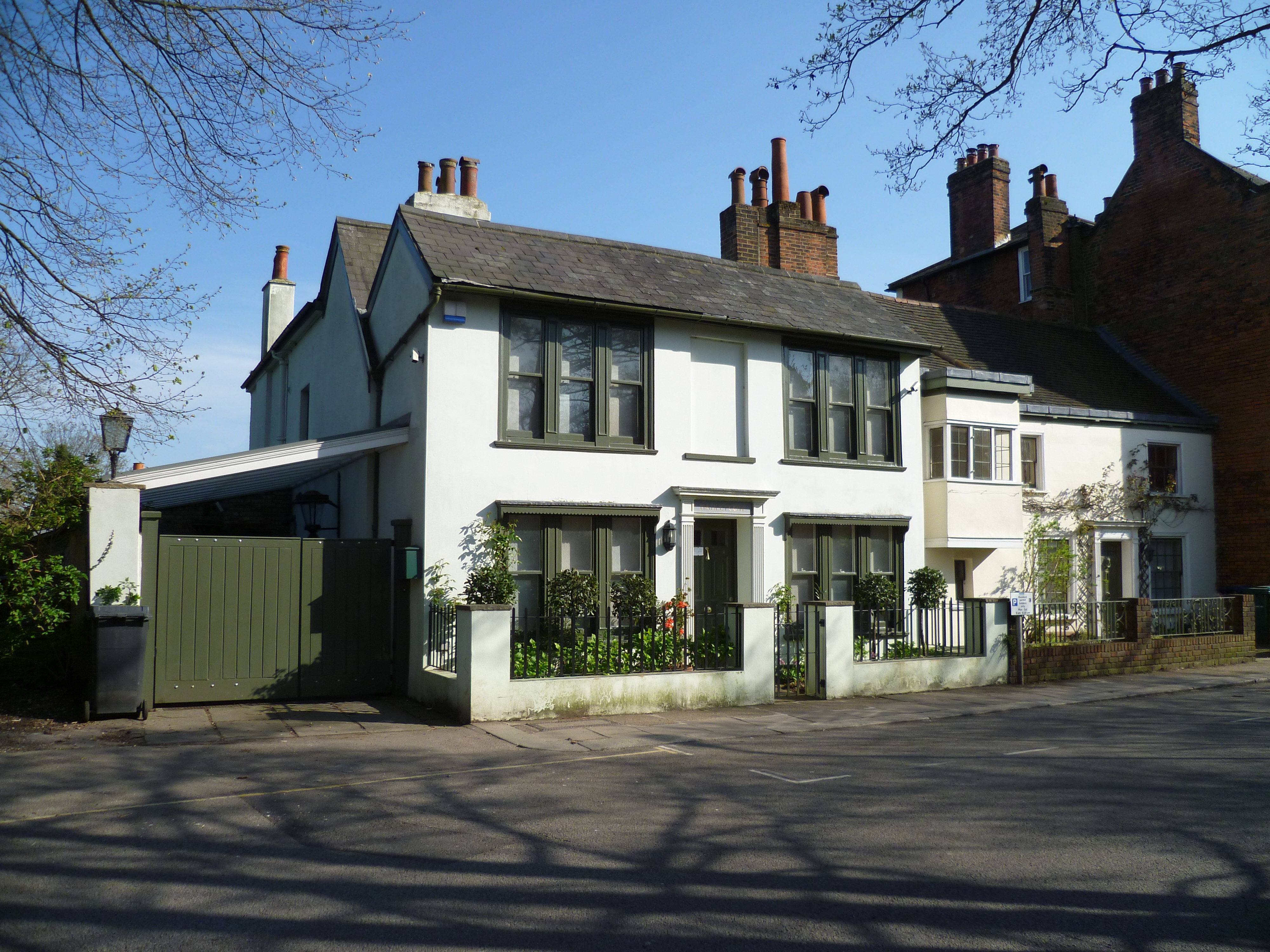 House in Hadley Green Road.